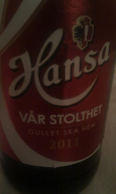 A cup final beer from Norway